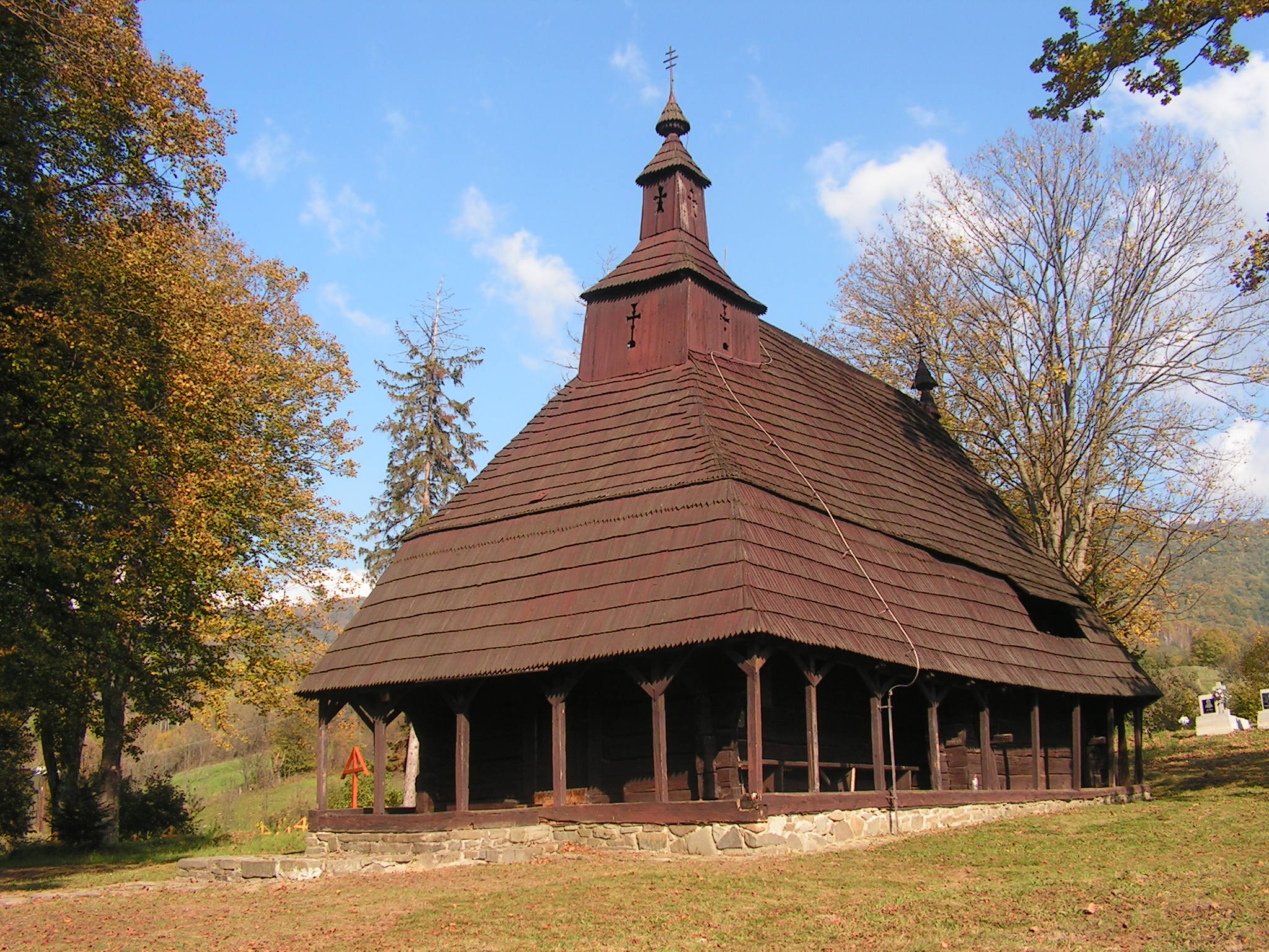 Topoľa wooden church